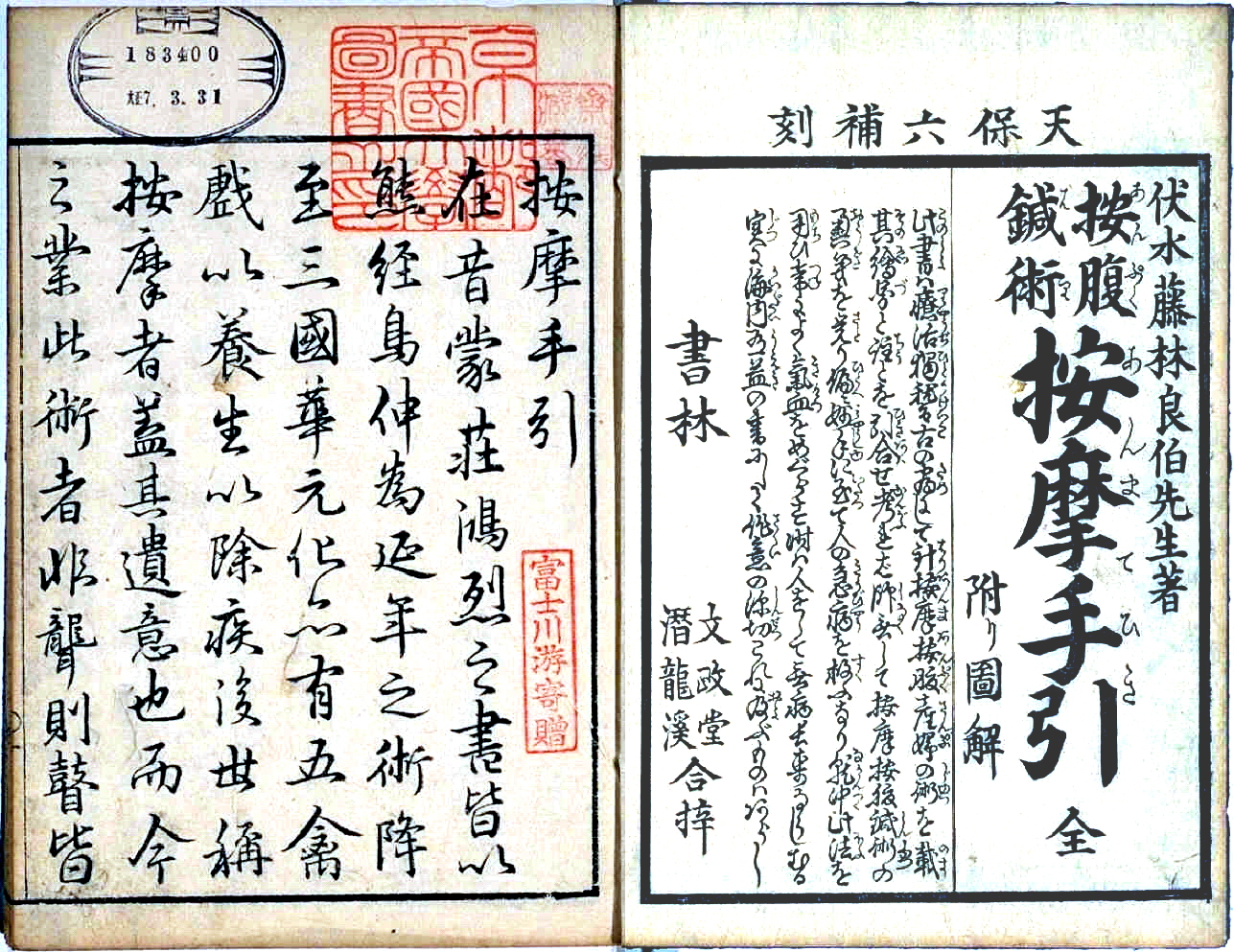 Introduction page of Anma Tebiki («按摩手引»; Massage Handbook), written by Fujibayashi Ryohaku in 1835 during the early Edo period.